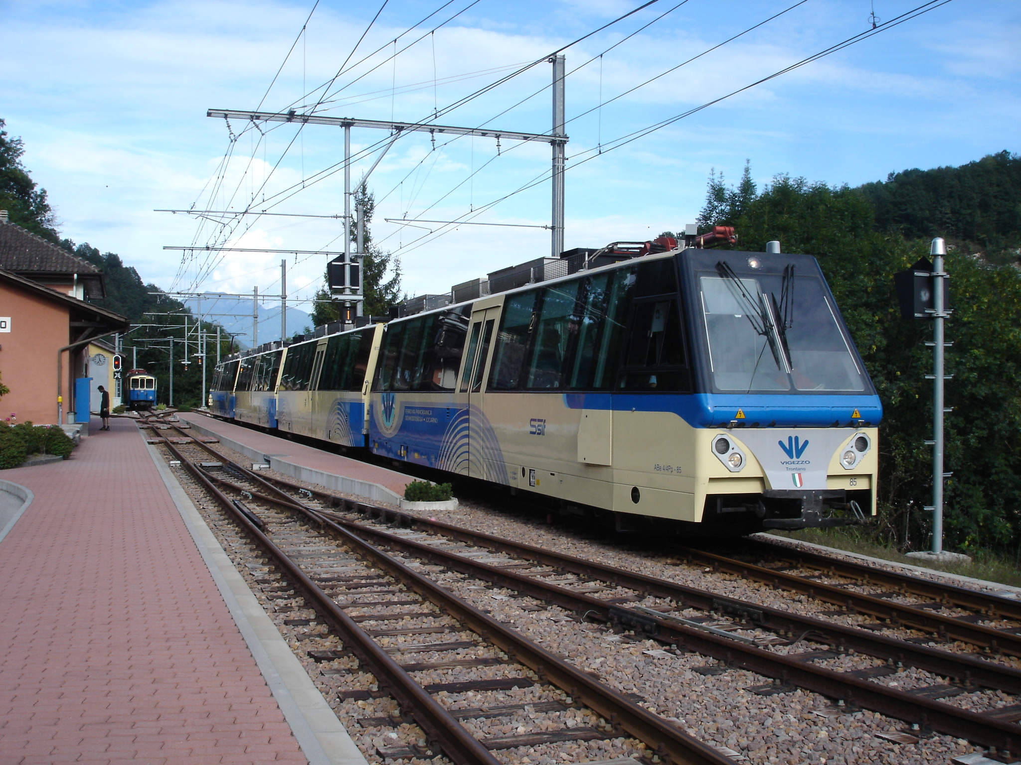 SSIF panoramic train ABe 4/4 Pp 85 - P 812 - Be 4/4 Pi 89 - Be 4/4 Pp 86 at Camedo (Switzerland)